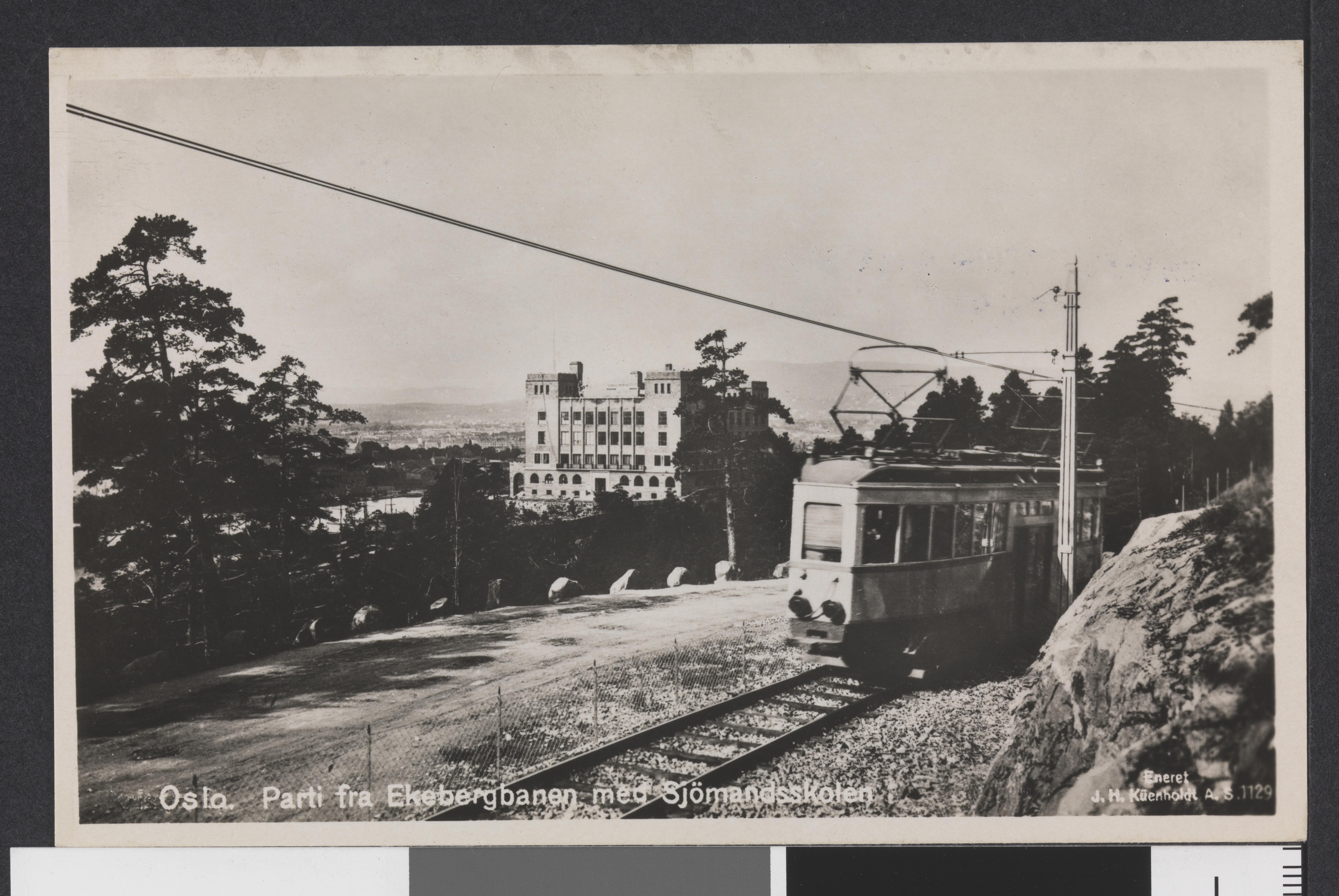 Postcard of Ekeberg in Oslo, from Ekebergbanen towards Sjømannsskolen in the background. Ca. 1925-1930. Postcard pubished by J. H. Küenholdt. From the collection of Nasjonalbiblioteket / The National Library of Norway.